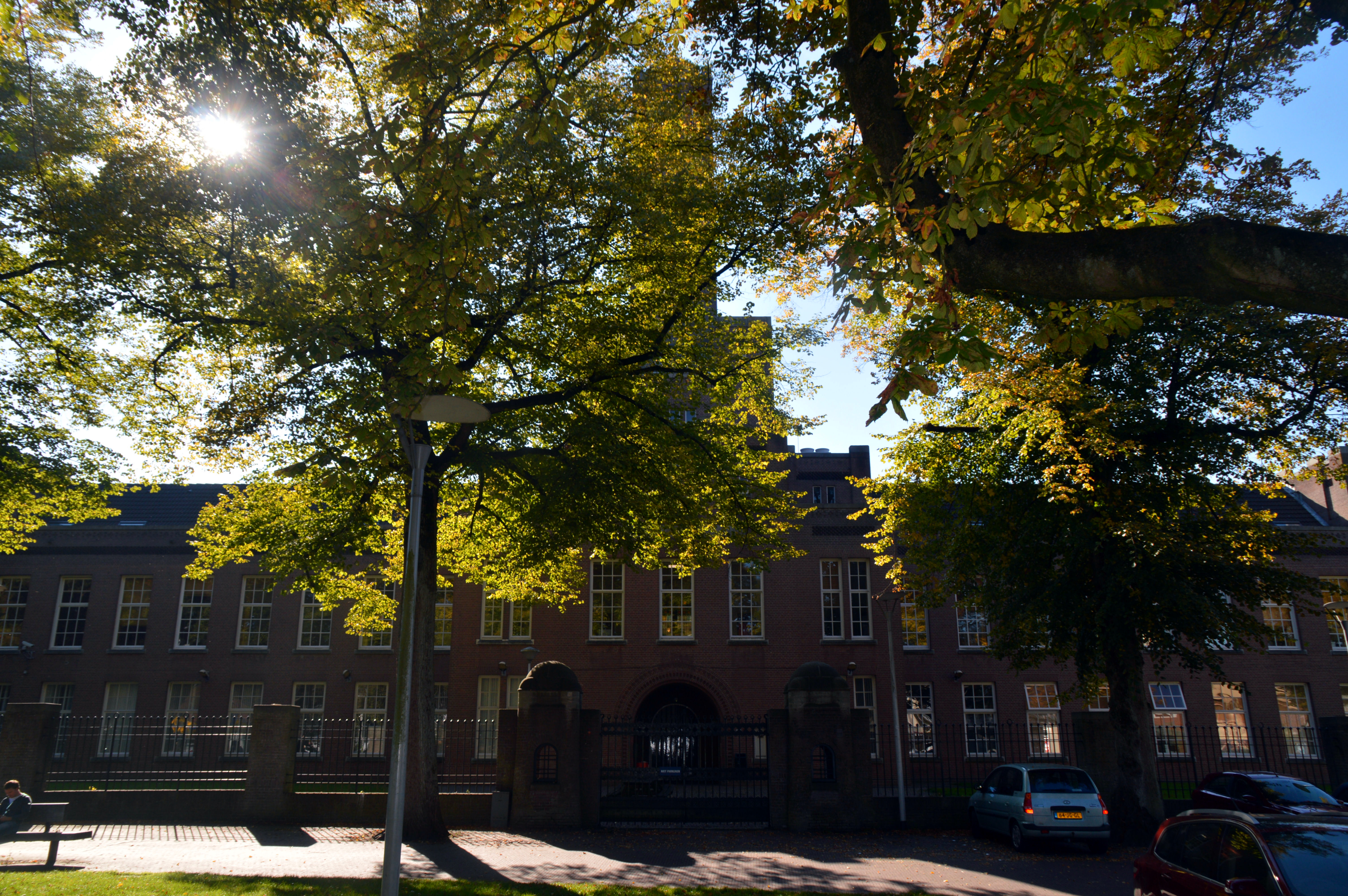 Prins Hendrikkazerne facade, Colonial Reserve Reserve KNIL, Hengstdal, Nijmegen